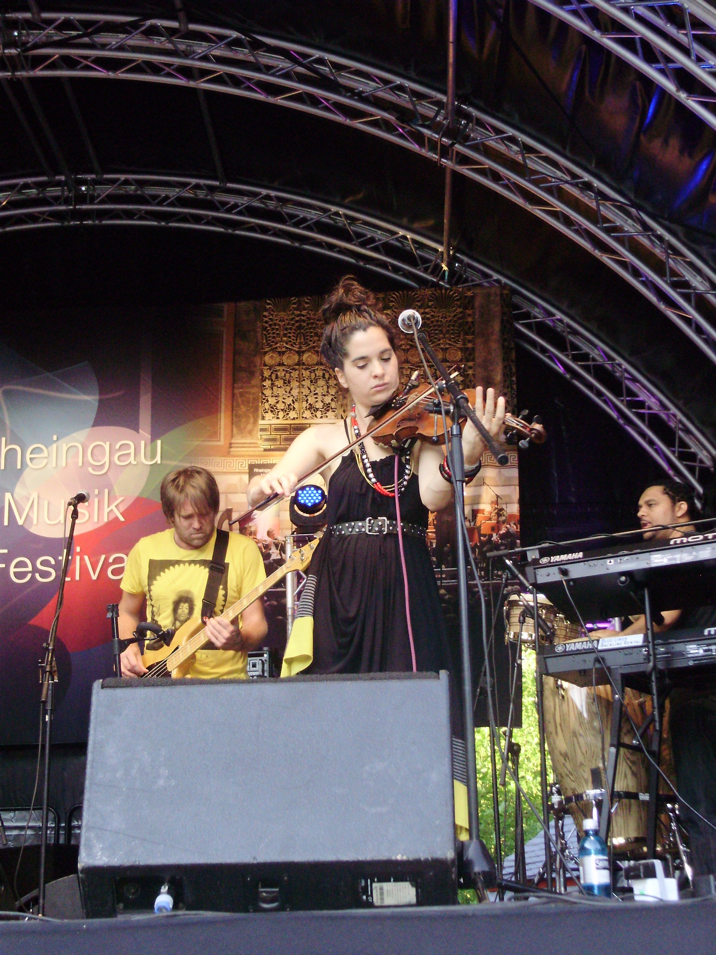 Photograph taken at the Rheingau Musik Festival (11 august 2012).